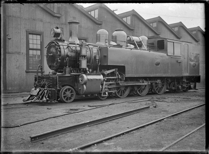 1917 photo 480 was built by New Zealand Railways at Hillside (maker's no 104/10), went into service in October 1910. It was altered for use on the Rimutaka Incline to assist the "Fell" locomotives cope with the military traffic to and from the NZEF training camp at Featherston. The cowcatchers were altered to clear the high Fell centre rail, and it had an acetylene headlamp arranged to follow the alignment of the track on curves. Written off in June 1969, and preserved at Glenbrook.